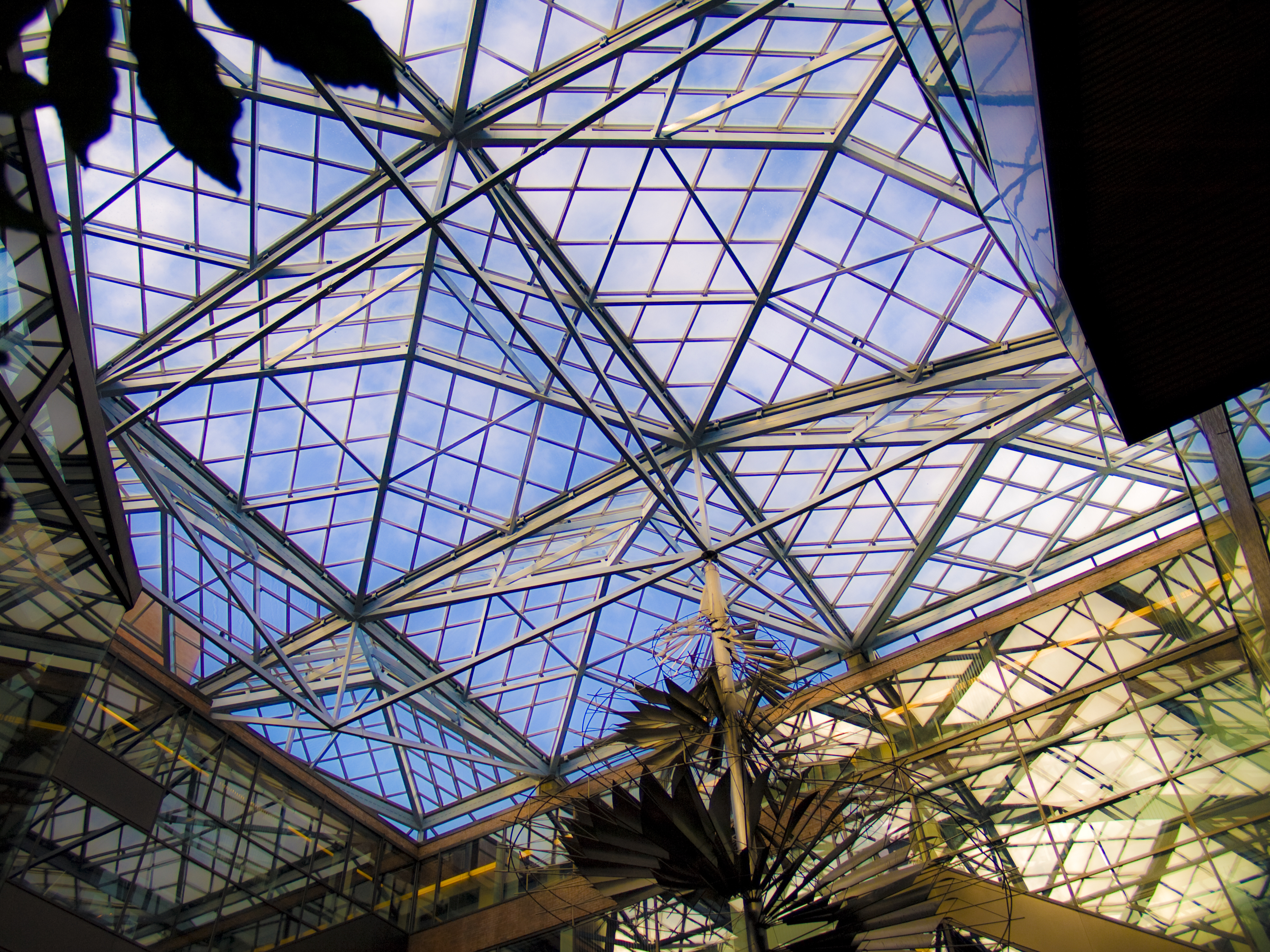 Courtyard of the Greater Victoria Public Library on Broughton Street in Victoria, British Columbia, Canada. Features steel sculpture by George Norris, that used to move.